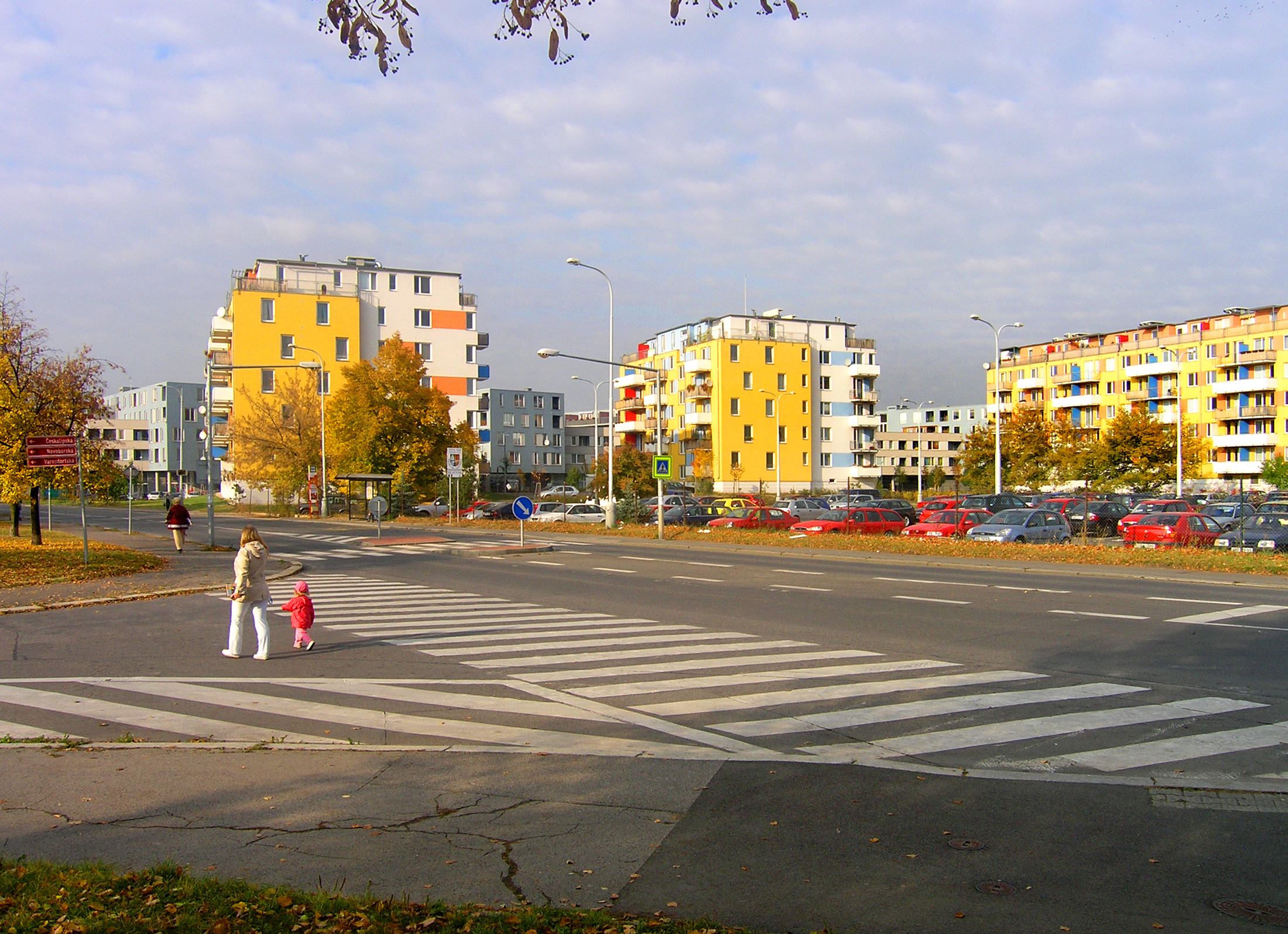 Nový Prosek residential complex in Letňany, Prague